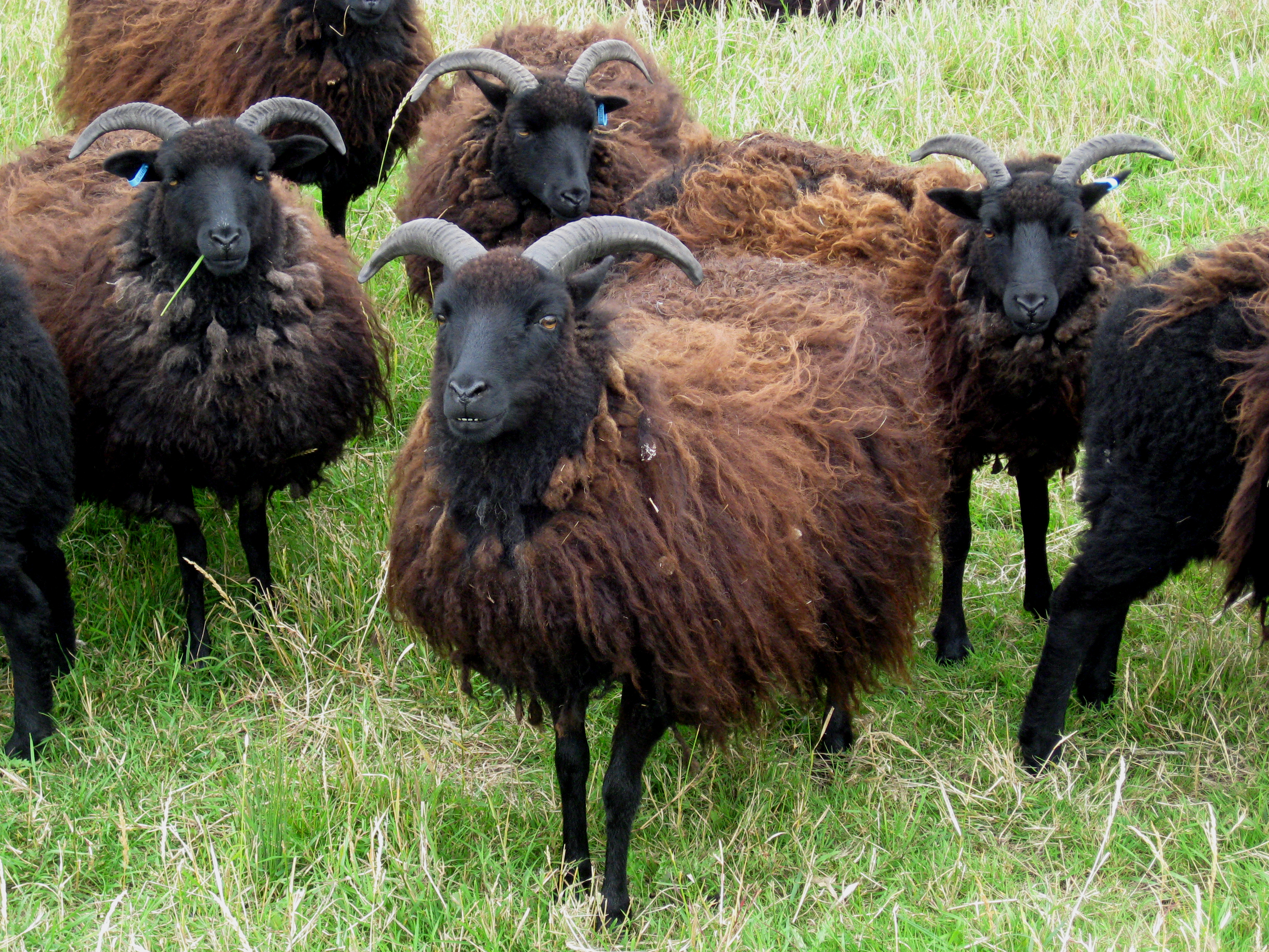 Hebridean sheep at Waters' Edge Country Park, Barton Upon Humber, North Lincolnshire.